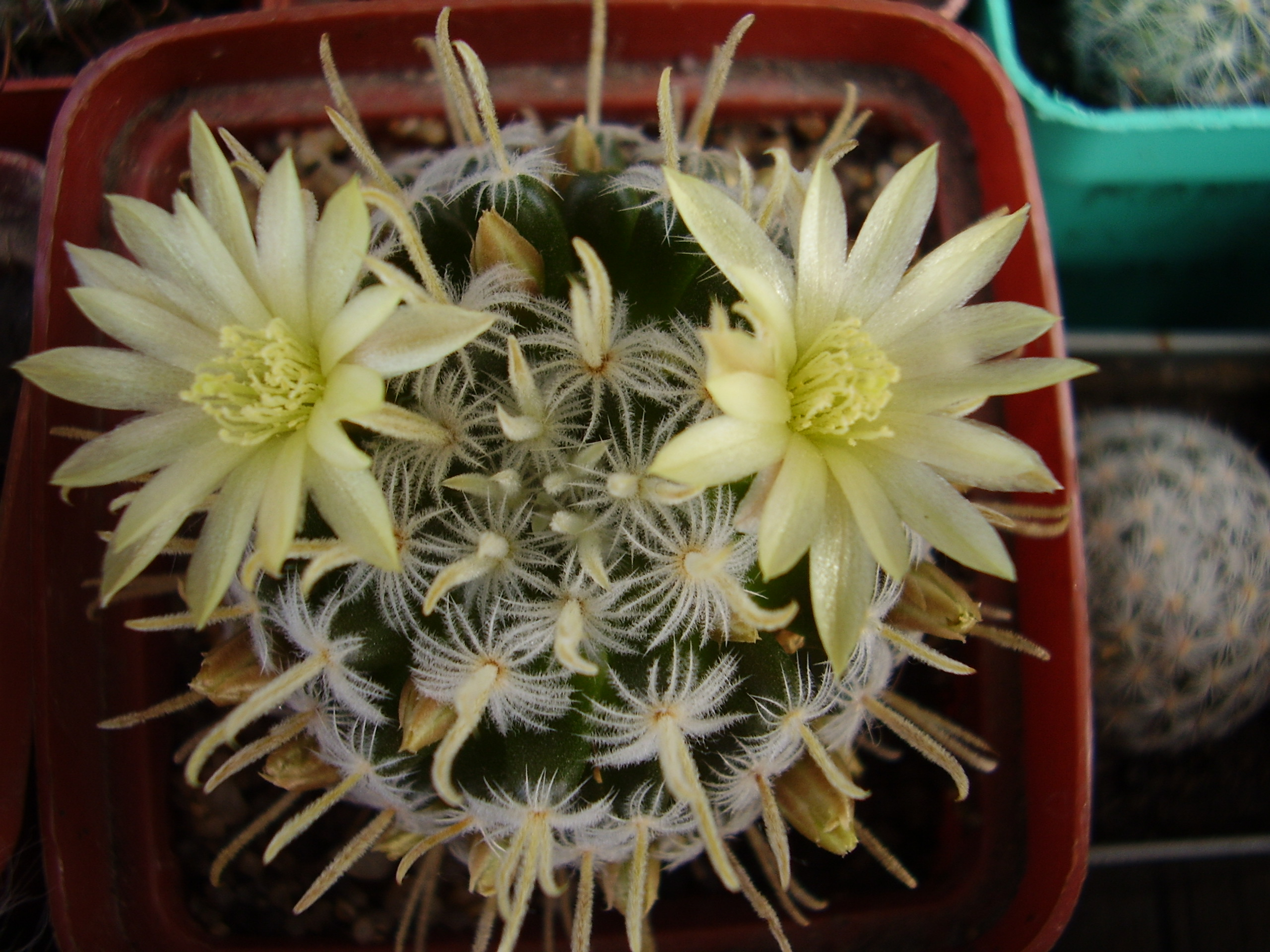 Mammillaria duwei from collection of Yuriy Shostak (Mykolaiv, Ukraine)